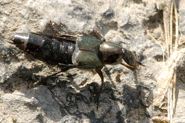 Philonthus temporalis from Commanster, Belgian High Ardennes .